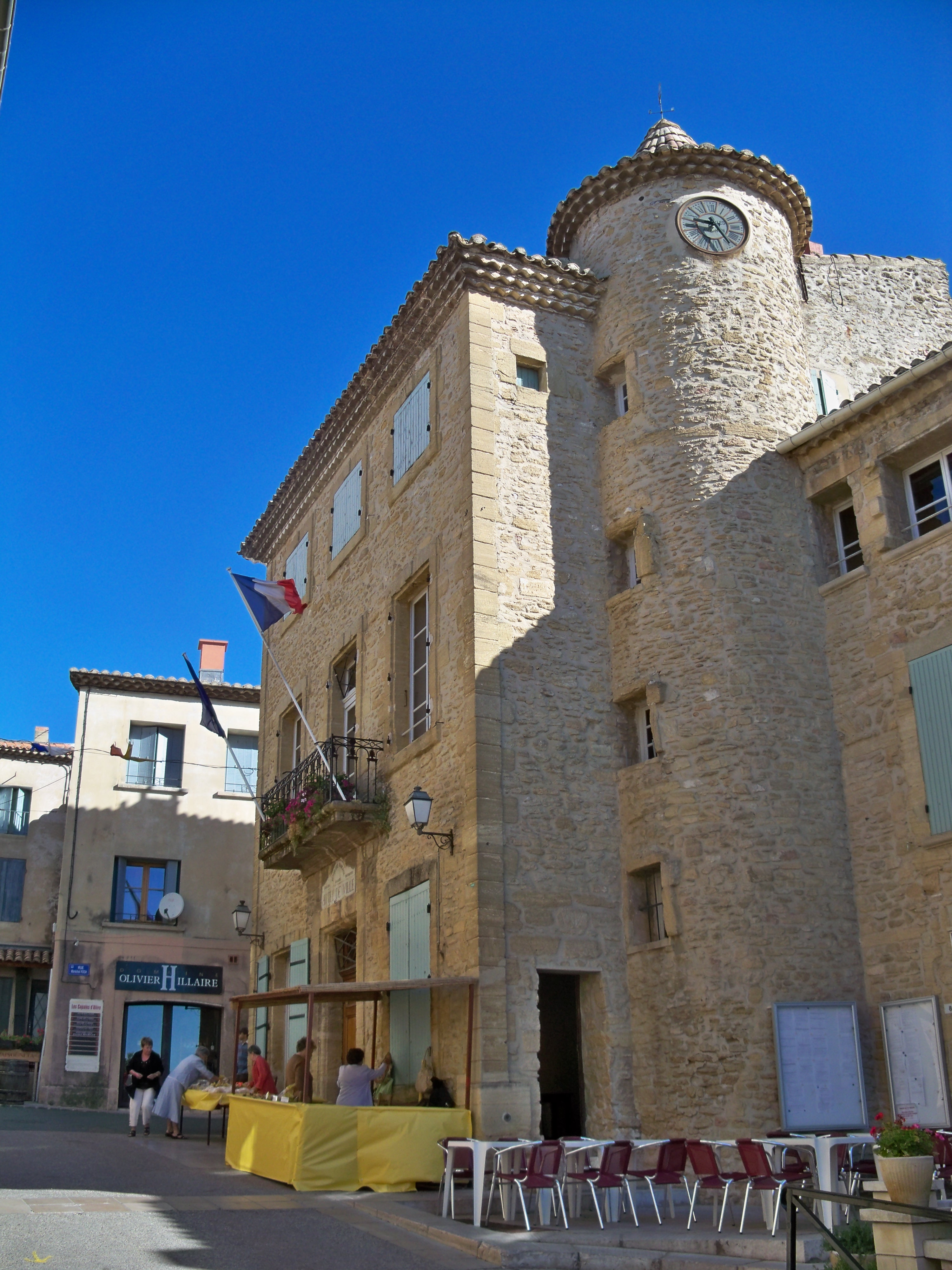 Chateauneuf du Pape town hall, Vaucluse, France